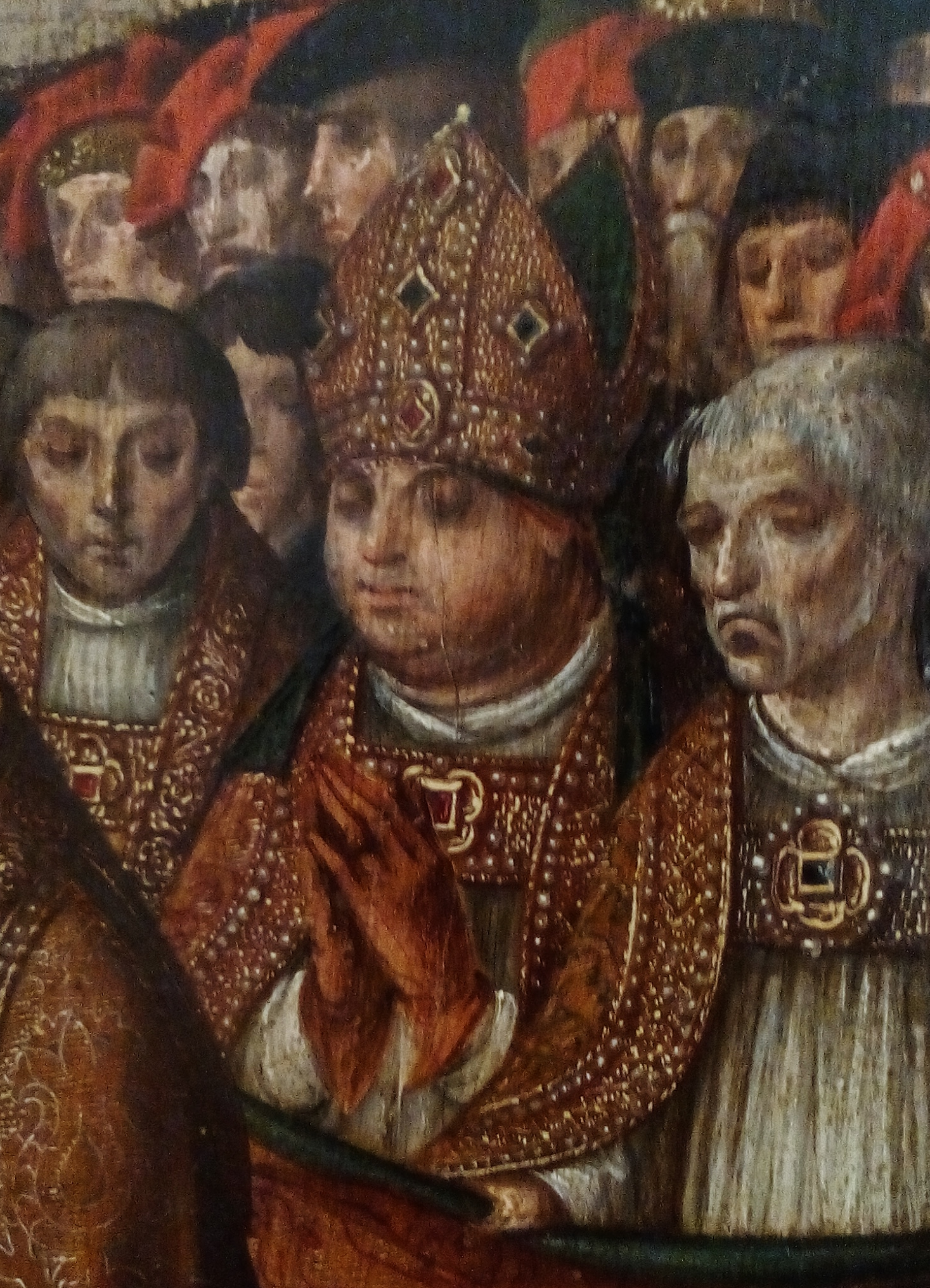 Detail of the Saint Auta Altarpiece (Arrival of the relics of Saint Auta to the Madre de Deus Church), showing Martinho da Costa, Archbishop of Lisbon.